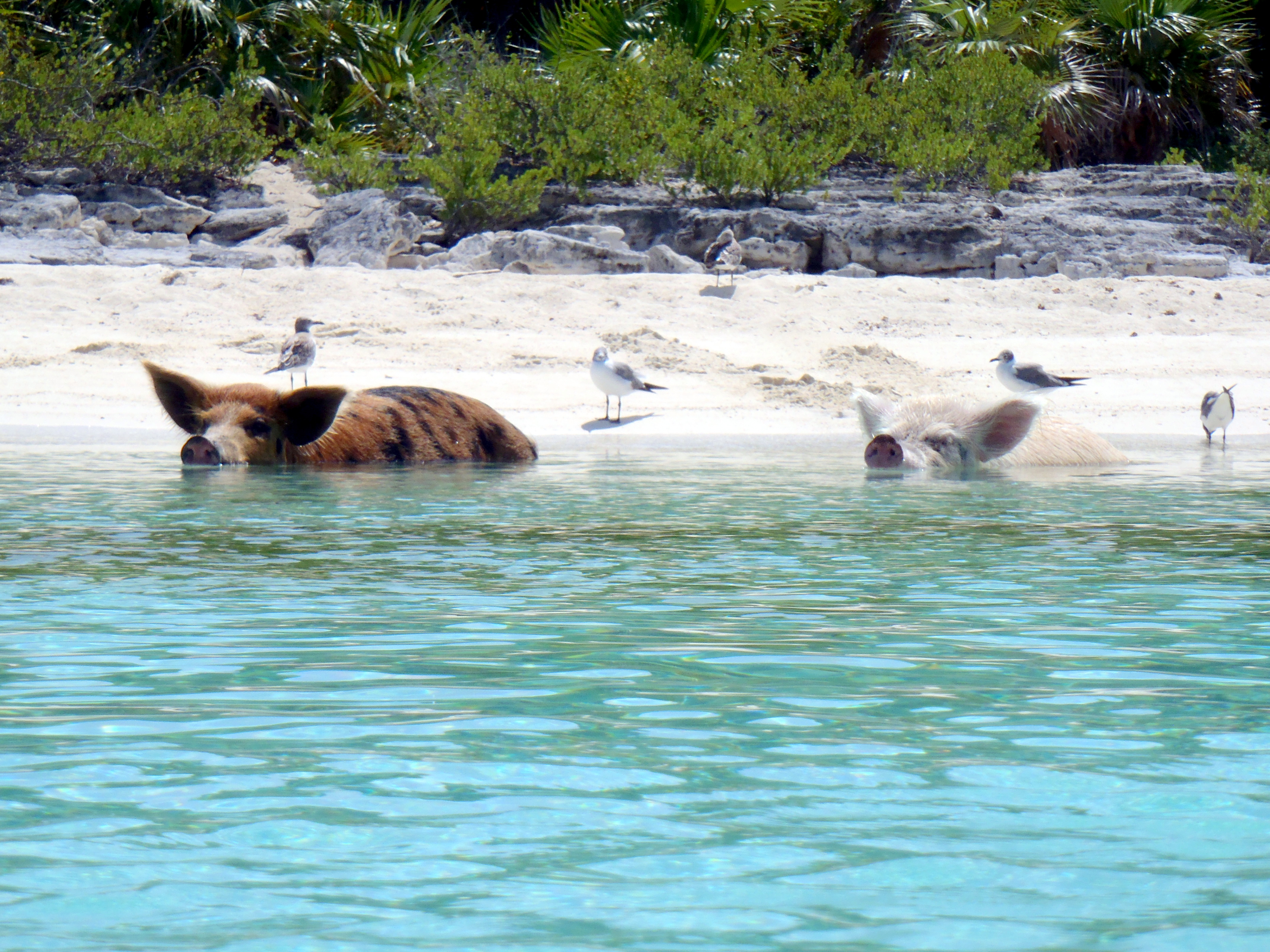 Bahamas 08.2012 on board M/Y Nina Lu The Bahamas, pigs don't fly but they do swim See the swimming pigs in the Bahamas - dallasne.ws/NsLLki Exuma, Bahamas (photos courtesy of Trent from the Nina Lu)